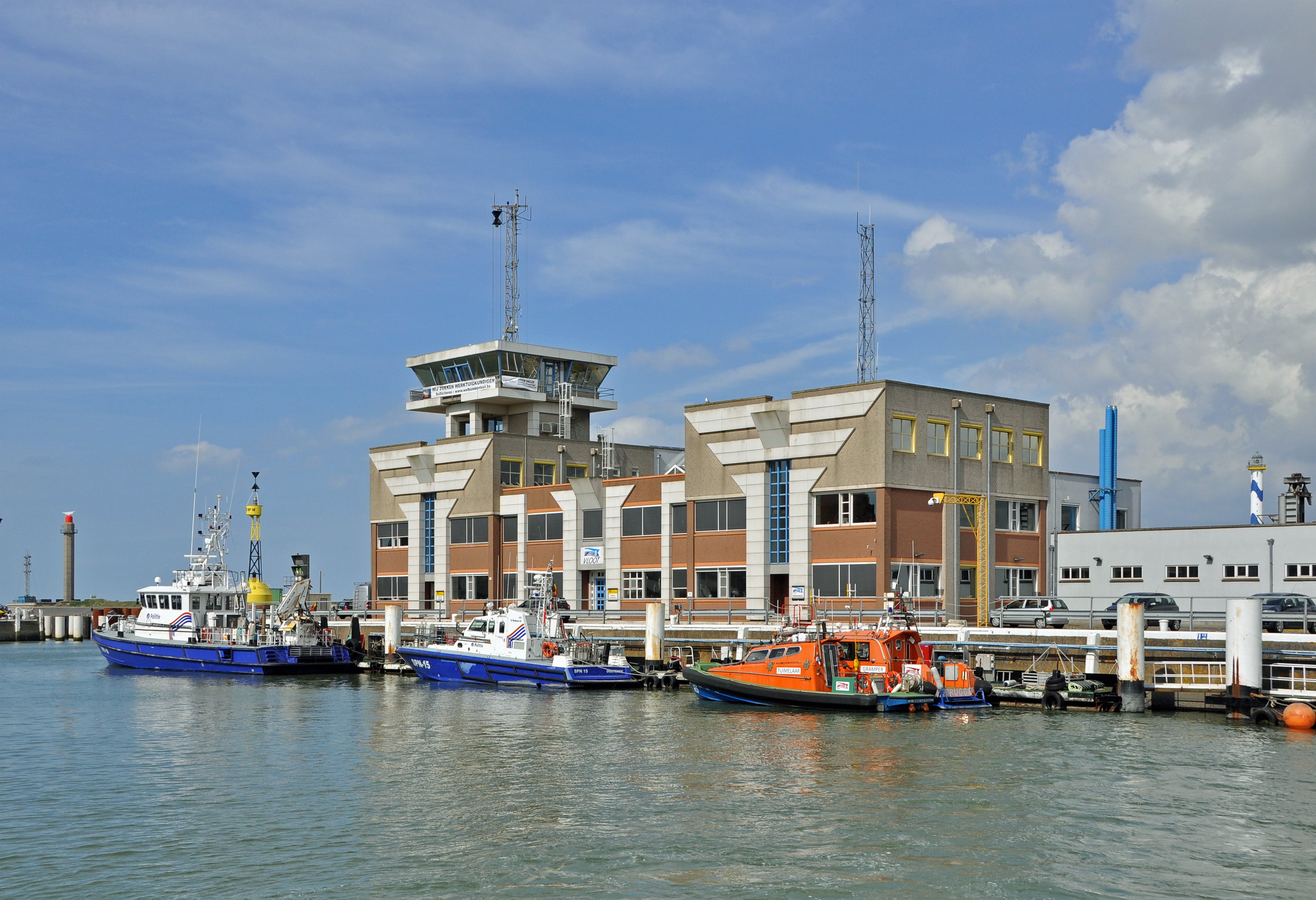 Ostend (Belgium): headquarters of Vloot, the Flemish governmental fleet